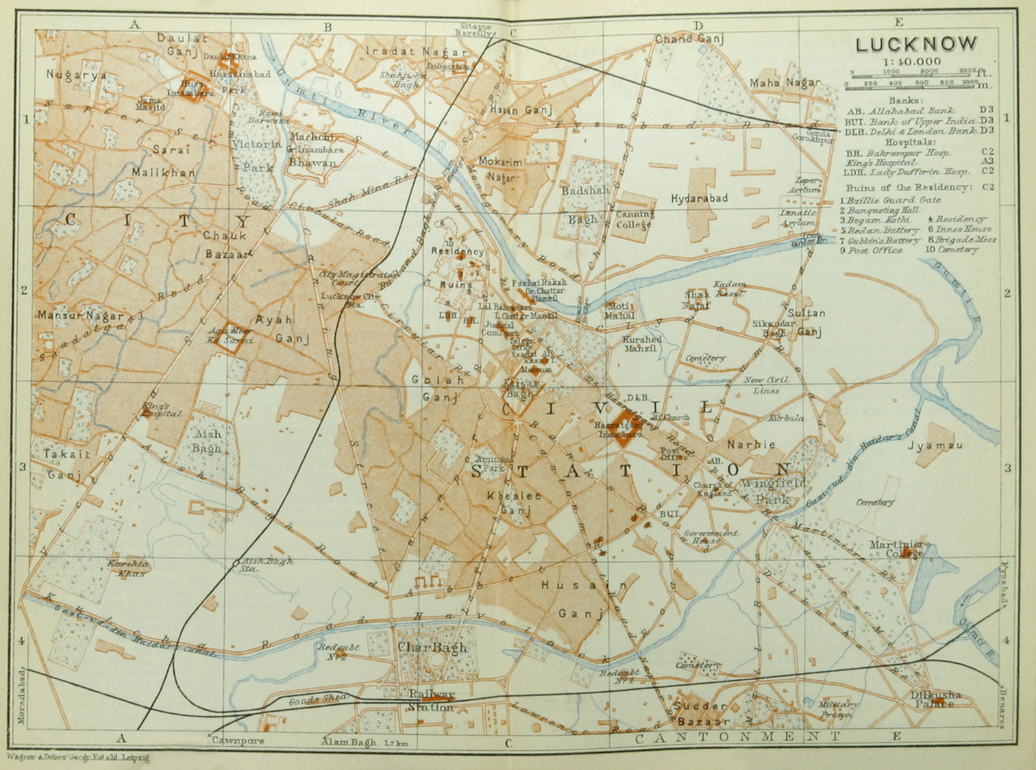 Map of parts of the city of Lucknow (1:40,000), esp. the Civil Station and parts of the Old Town. Labelled in English